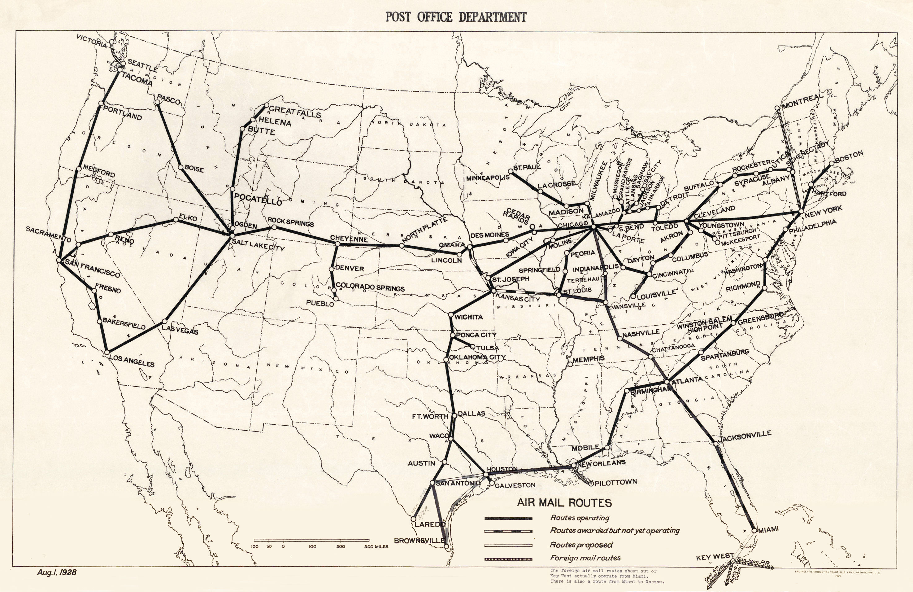 United States Post Office Department map of air mail routes, 08/21/1928. Record Group: RG 28, United States Airmail Routes. Rediscovery Identifier:11011